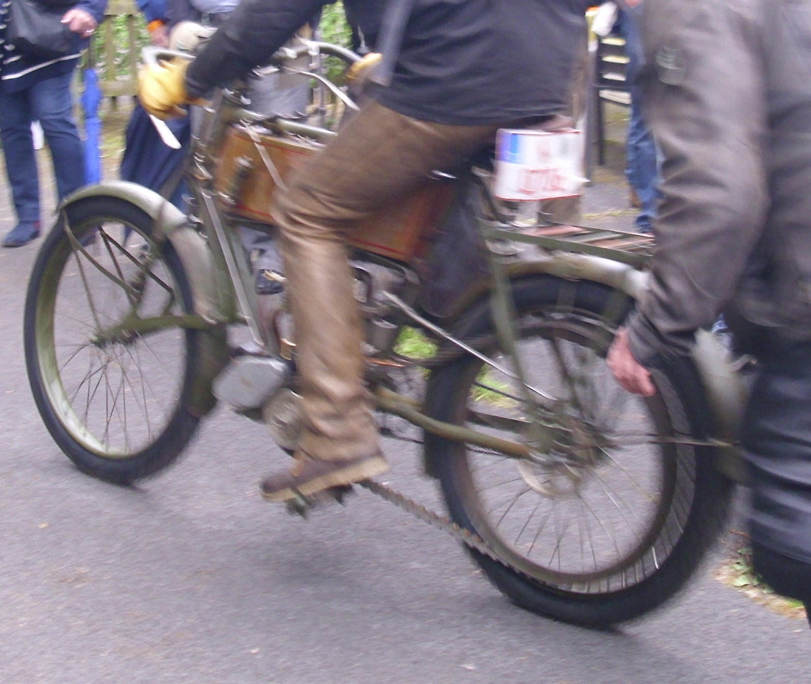 Allright 1905